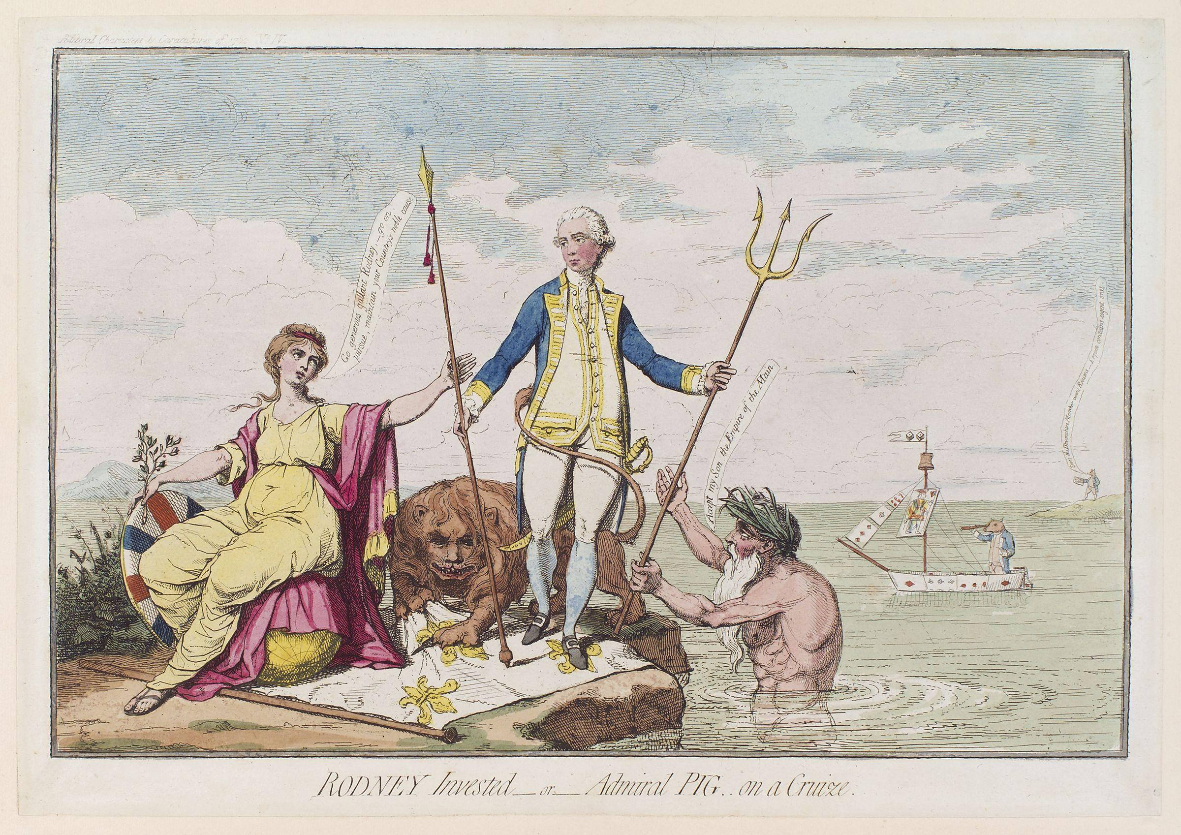 Rodney invested - or - Admiral Pig on a cruize (George Bridges Rodney at his investiture in 1782 as the 1st Baron Rodney. He is shown as Britannia's defender following his victory at the Battle of the Saintes; a fallen French flag lies beneath his feet. Behind him Admiral Hugh Pigot is depicted as a pig sailing to take up his post as Rodney's replacement in the Caribbean. Pigot's political ally and gambling companion, Charles James Fox, is depicted as a fox on the shore. Pigot's ship is covered with symbols of cards and dice in reference to his gambling. The illustration was by James Gillray but published by Elizabeth d'Achery in 1782Depicted people: George Brydges Rodney, 1st Baron Rodney, Hugh Pigot, Charles James Fox and Britannia